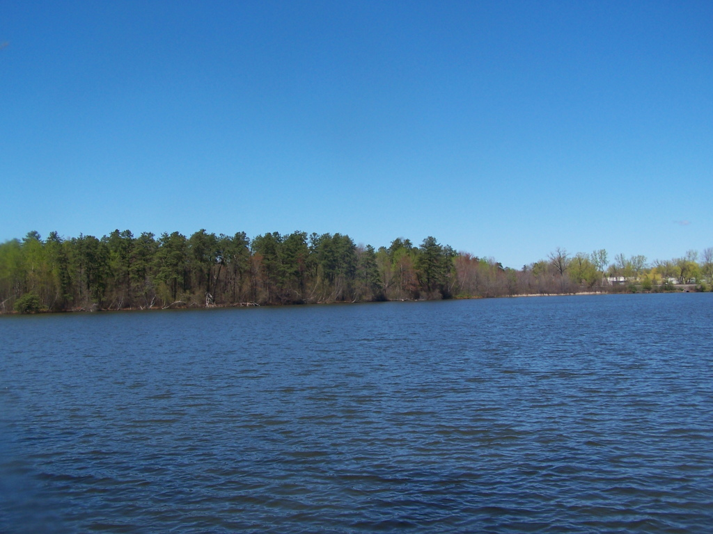 On a day with some solid blue skies, as things start to green up, at least in the city. In the distance is the railroad tracks that go from Albany to Schenectady.